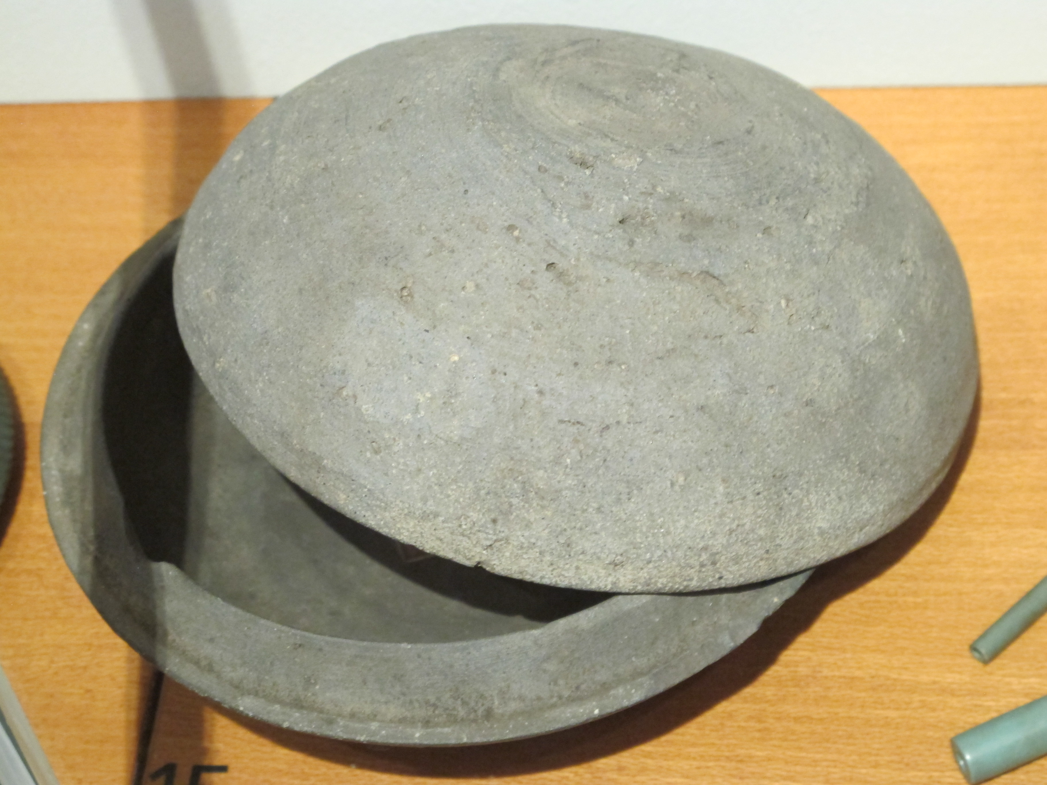 Sue ware, cup and cover. 8e c. Asuka or Nara period. Hiroshima prefecture. Musée Guimet